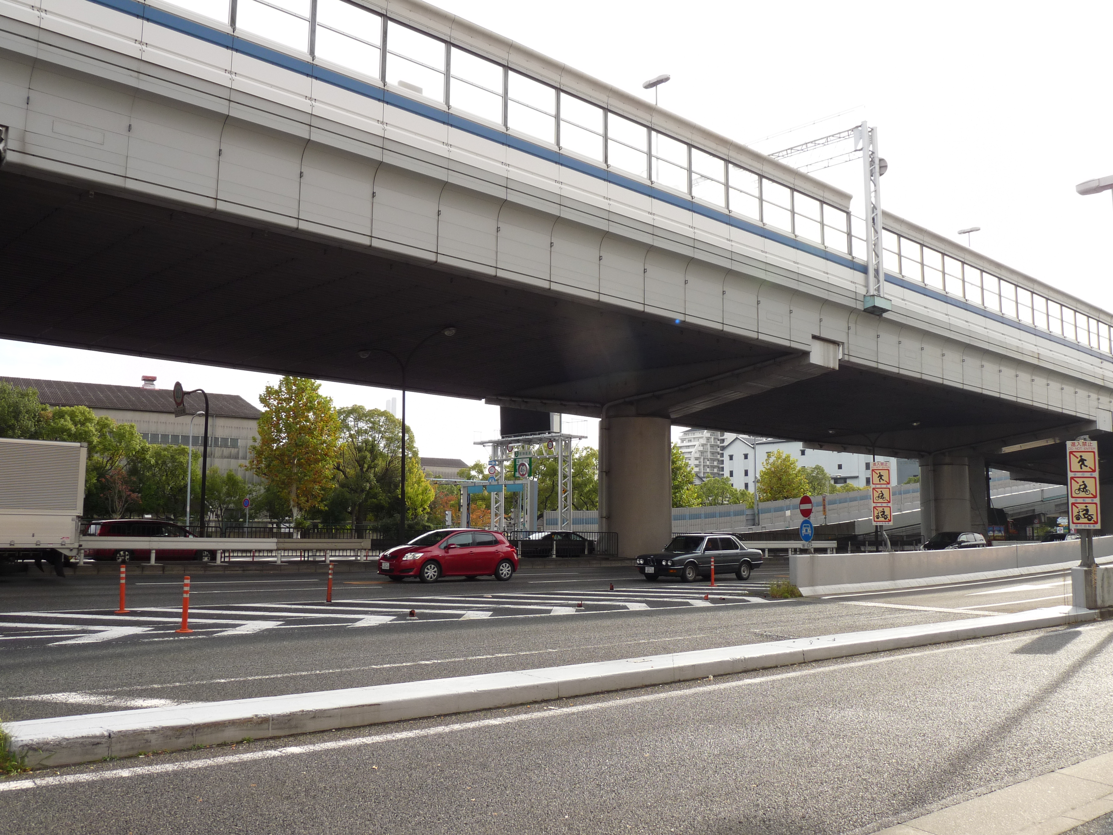 Hanshin Expressway 3 Fukae Deiriguchi